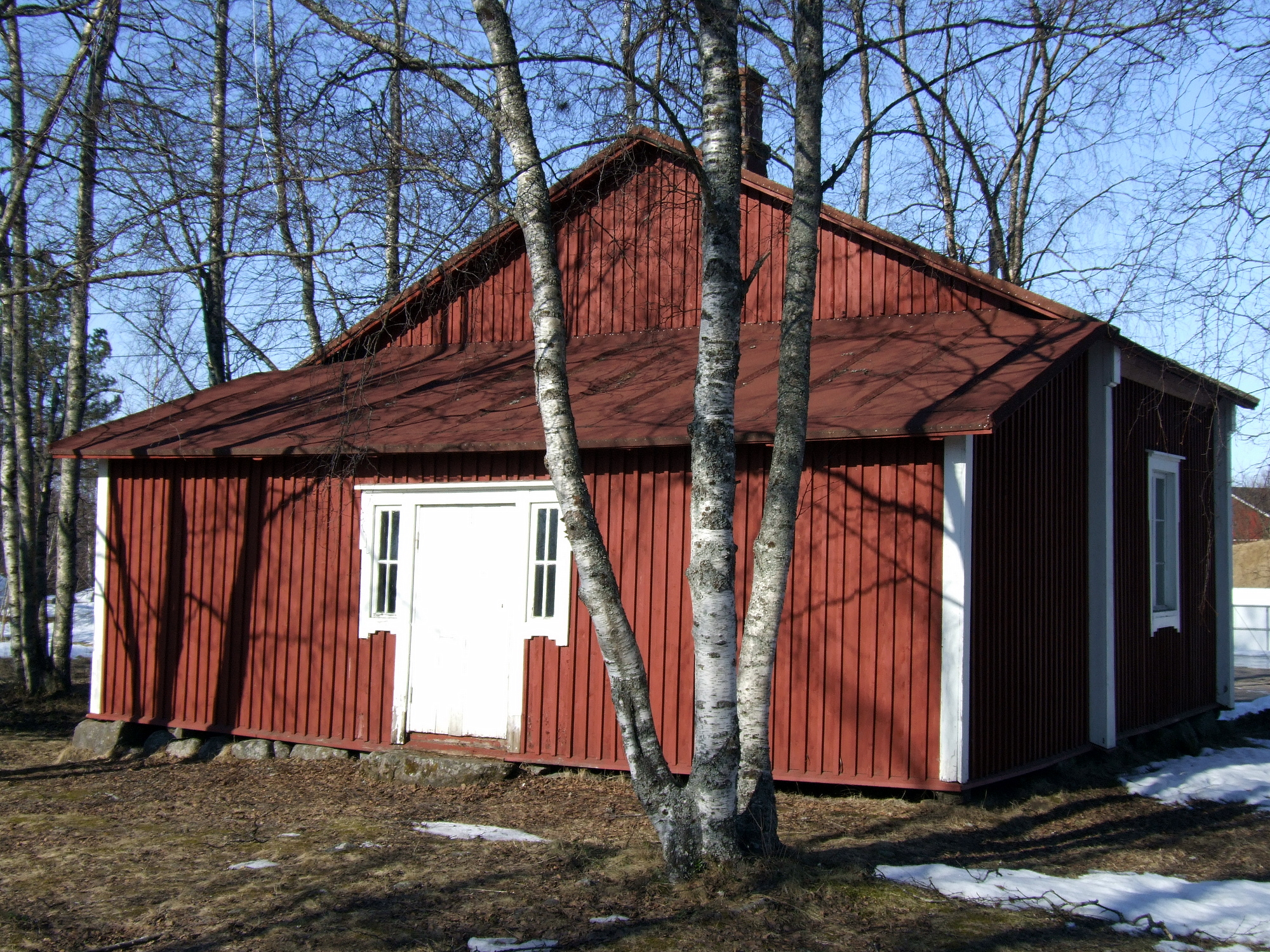 The remains of the house in Pattijoki, Raahe, Finland, where Convention of Olkijoki was signed on 19 November 1808. The house was actually torn down around 1900, but the rooms were the convention was signed, were spared for this small museum.